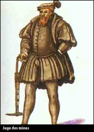 Juge des mines